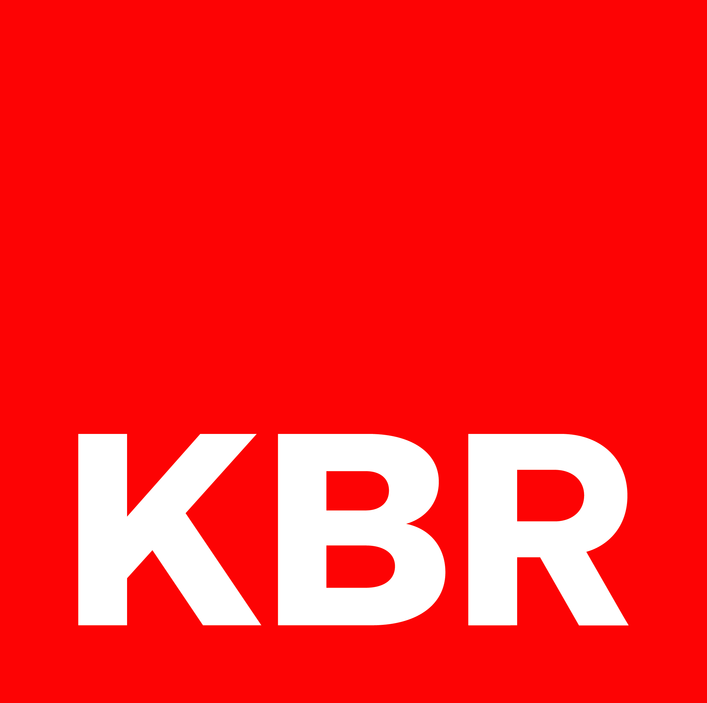 KBR, Radio News Agency, Jakarta Indonesia